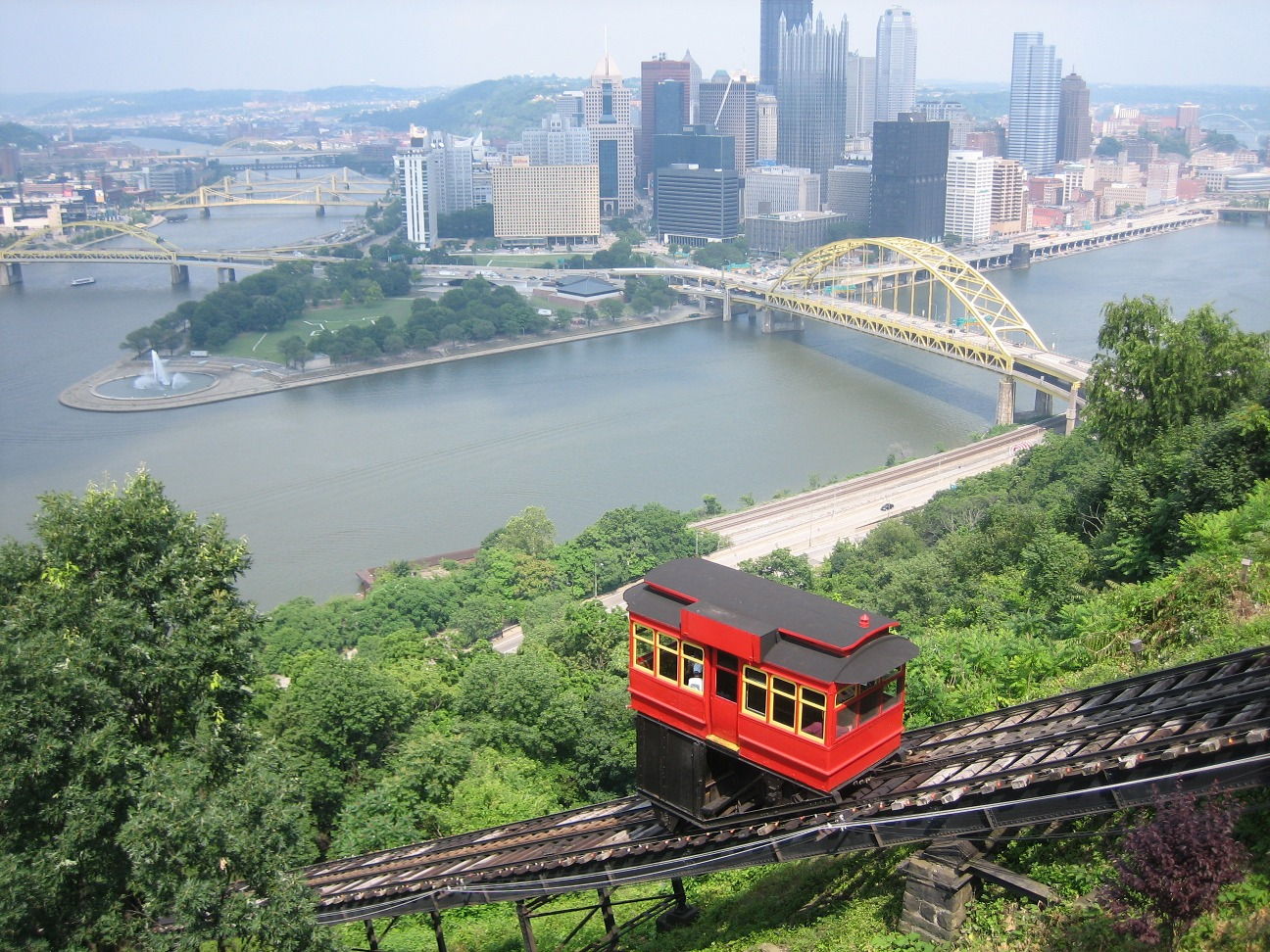 Duquesne Incline from the top